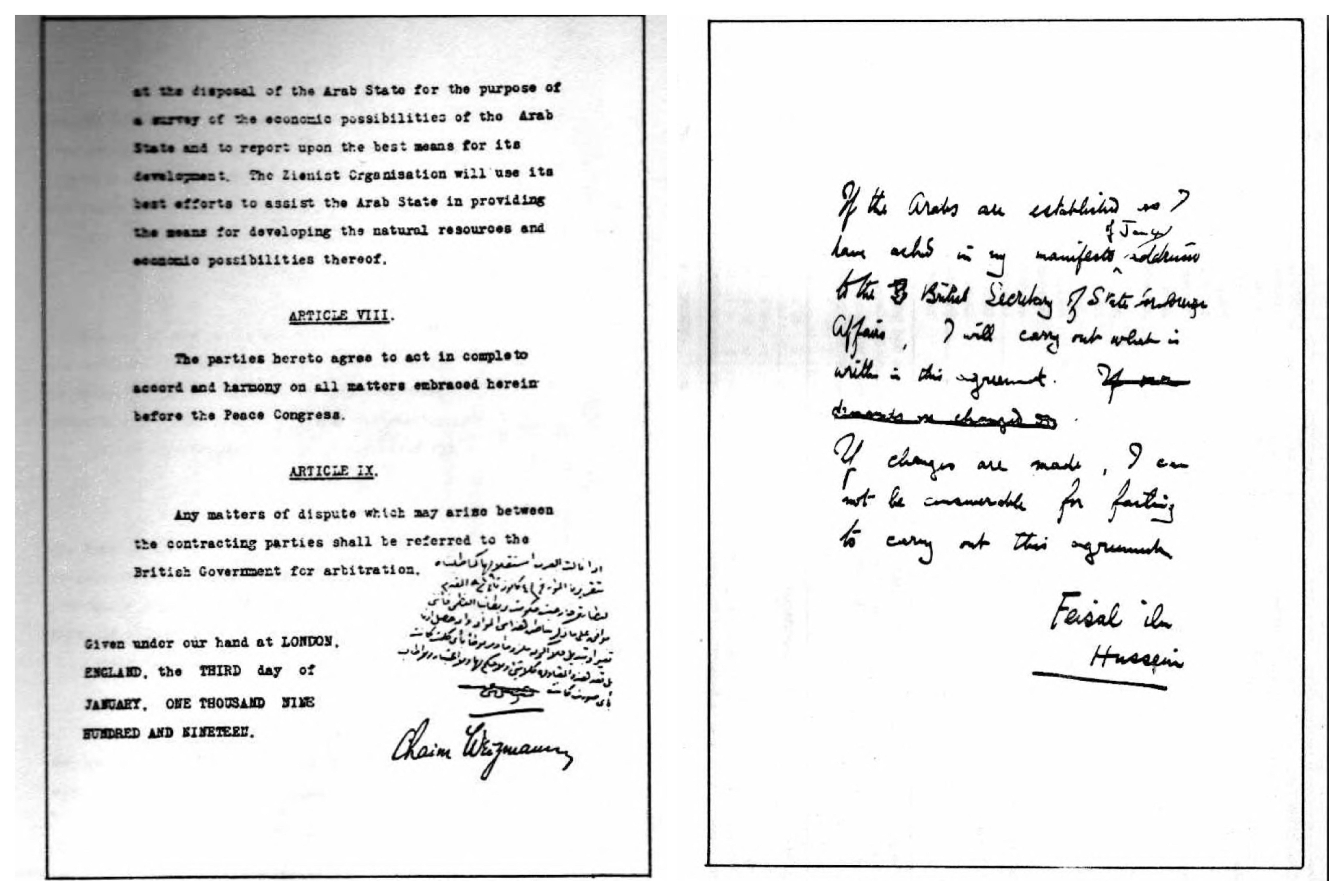 Extracted from File:Faisal Weizmann agreement 1919.djvu